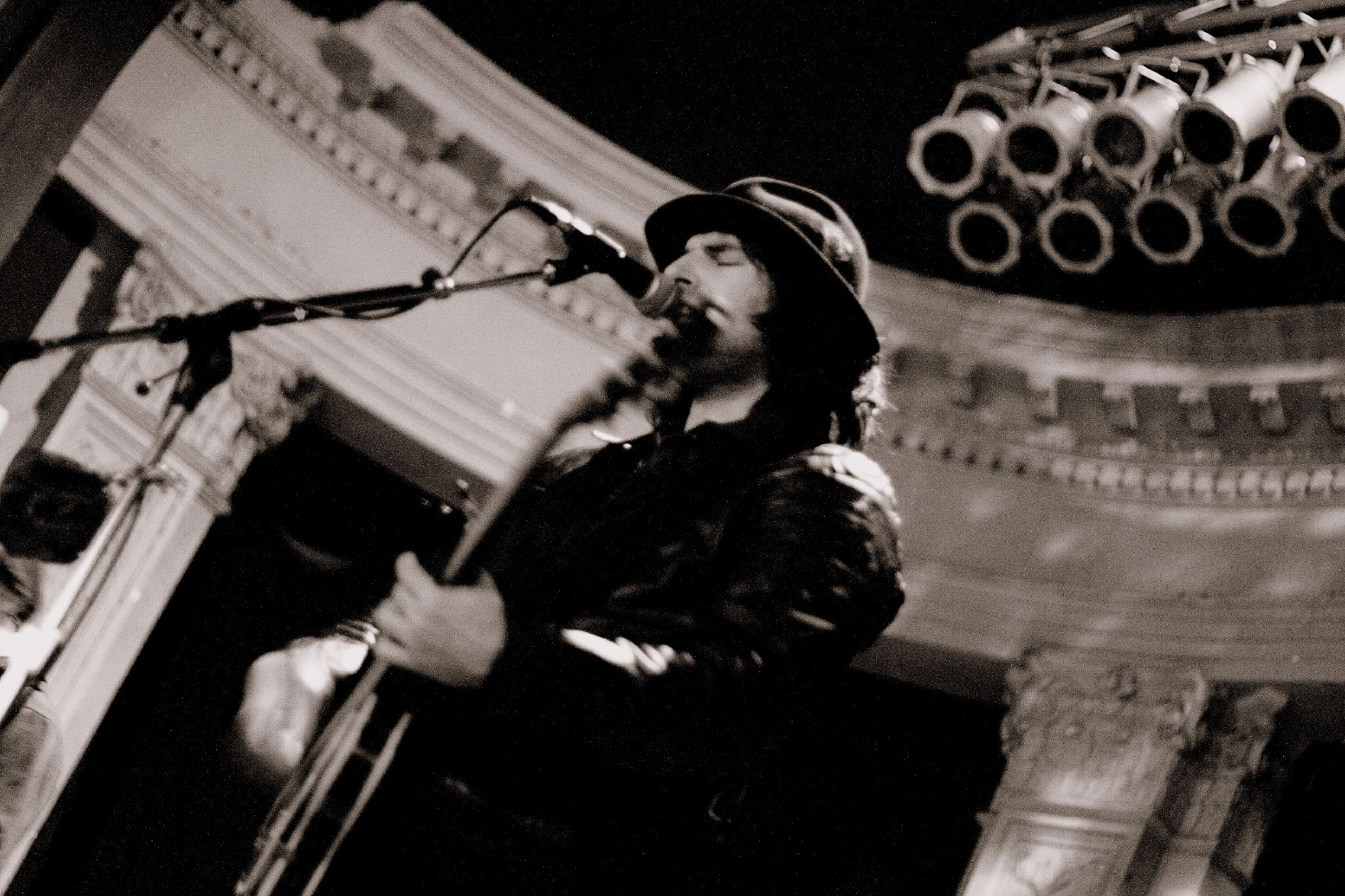 Pete Yorn at Neport Music Hall in Columbus, Ohio.